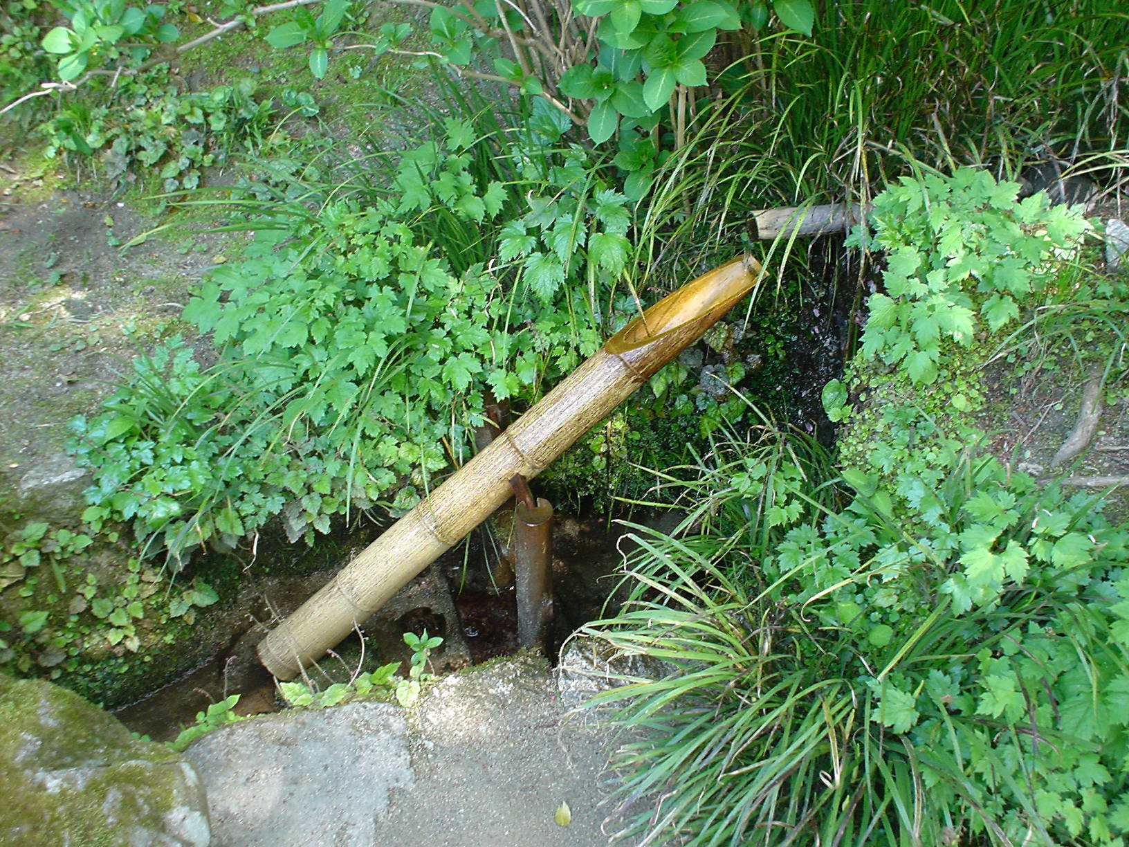 Souzu, a kind of Shishi odoshi, in Shisendo. Taken by the author.